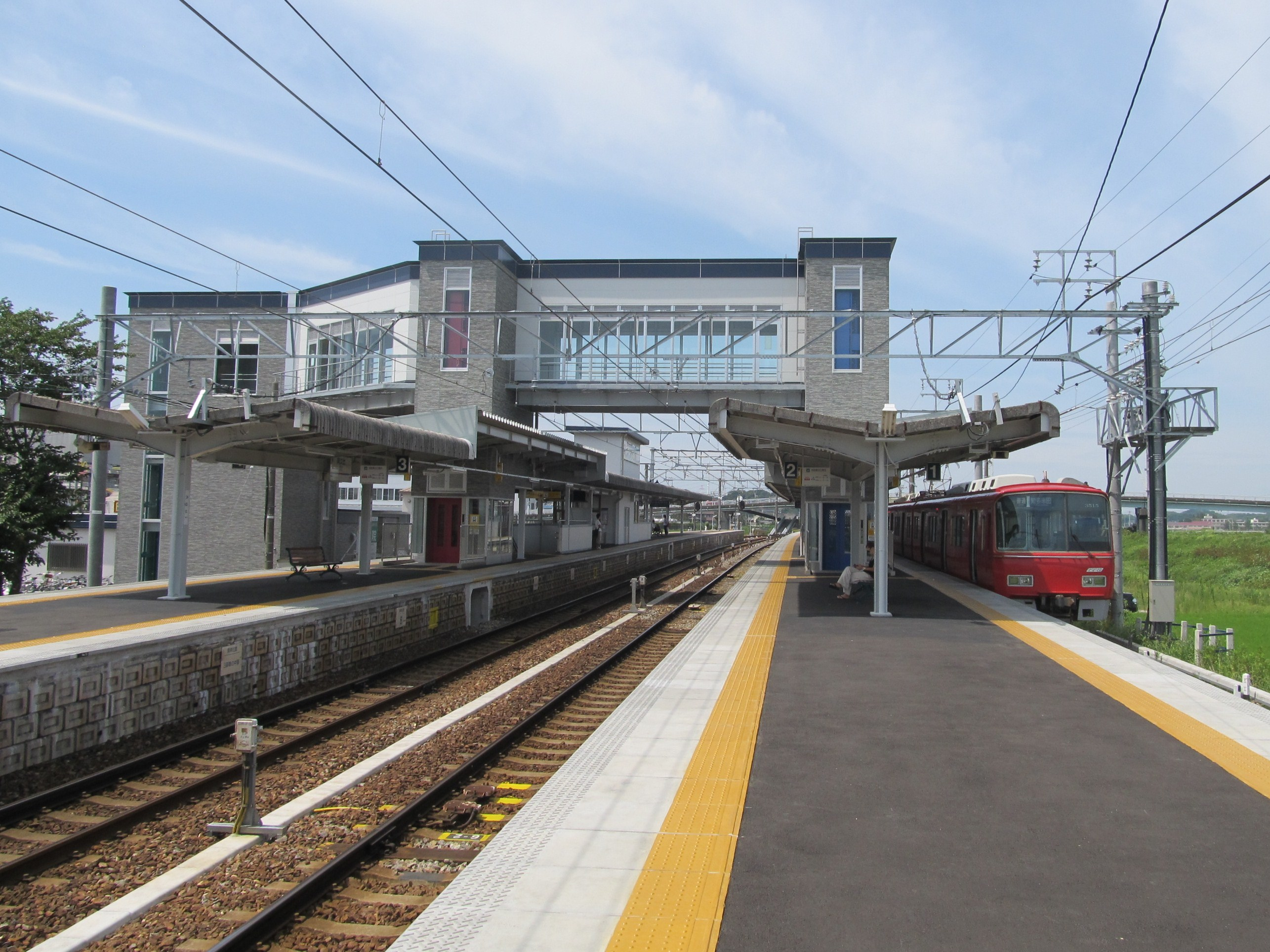 Nagoya Railroad Kōwa Line Agui Station Platform